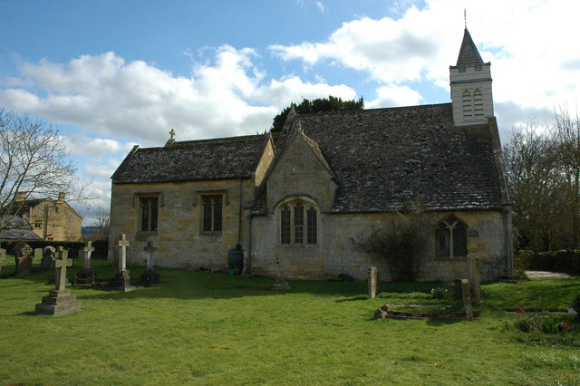 Wormington Church The small church at Wormington is dedicated to St Katherine. Pevsner describes the church as 'small and pretty' and completely rebuilt in a perpendicular style around 1475 by Hailes Abbey. The bell tower was probably added around 1800.